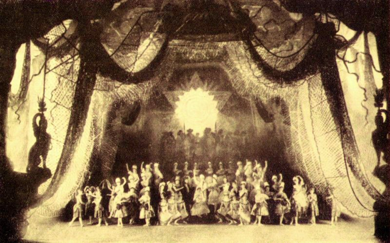 Photo of a scene from the choreographer Marius Petipa (1818-1910) & the composer Ludwig Minkus's (1826-1917) 1886 ballet "Les Pilules magiques". The photo shows the scene "The Kingdom of the Laces" on the stage of the Imperial Mariinsky Theatre.